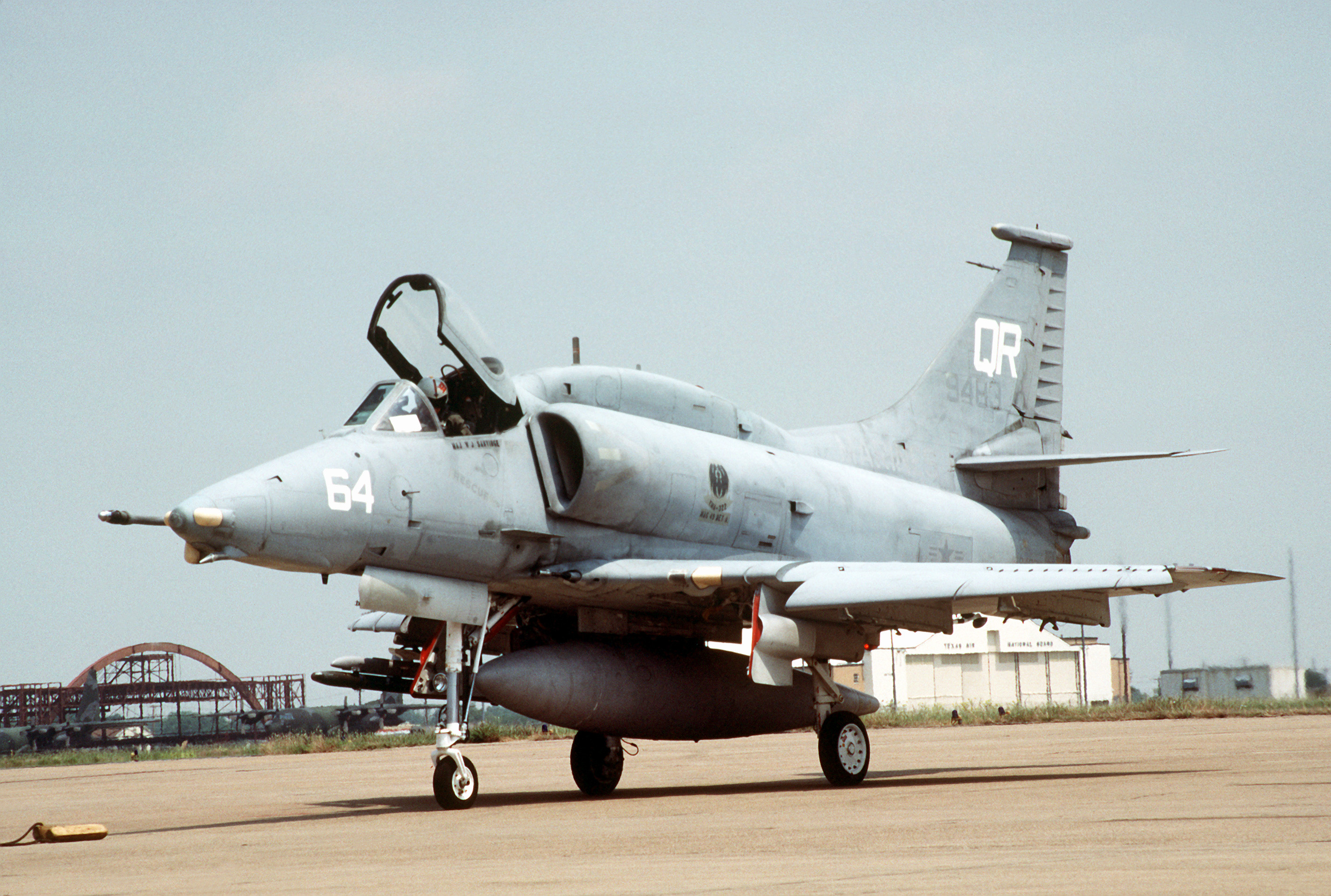 A McDonnell Douglas A-4M Skyhawk (BuNo 159483) of Marine attack squadron VMA-332 "Fighting Gamecocks" parked on the flight line at Naval Air Station Dallas (Texas, USA) on 1 Feb 1988.